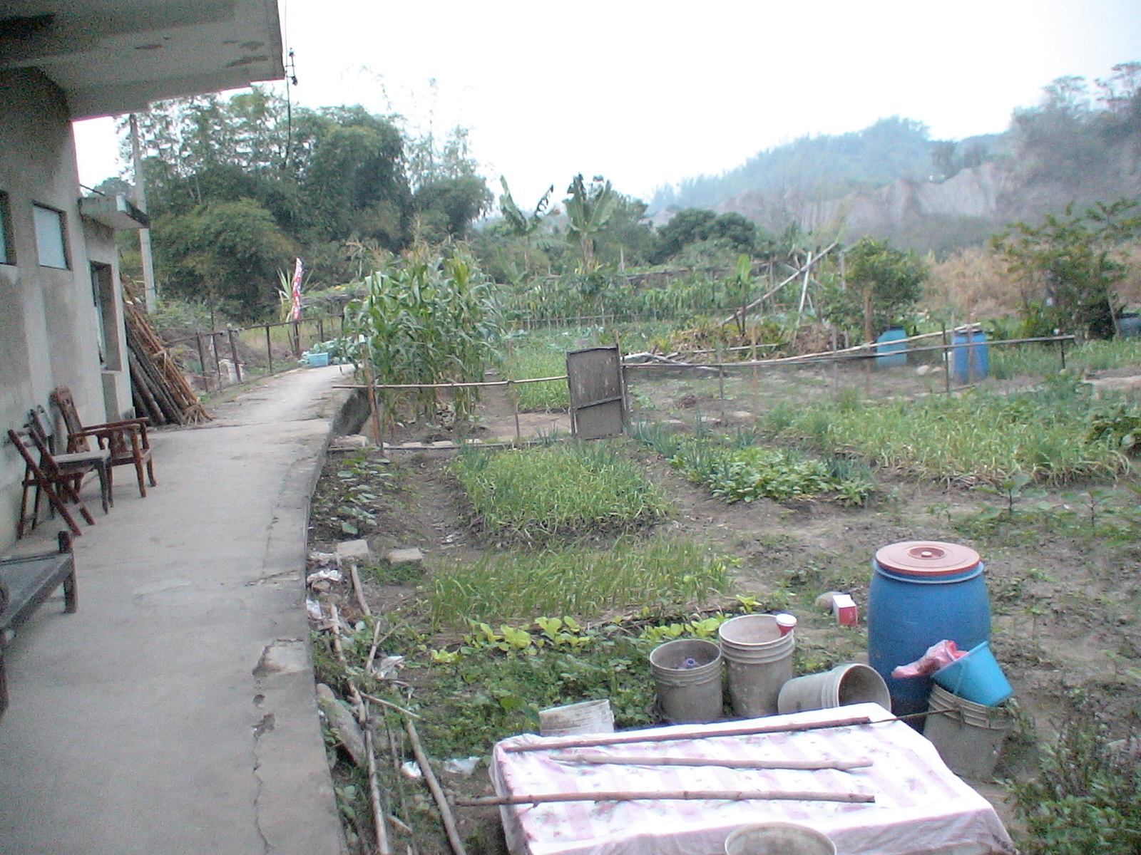 Zuojhen Station, Tainan, Taiwan